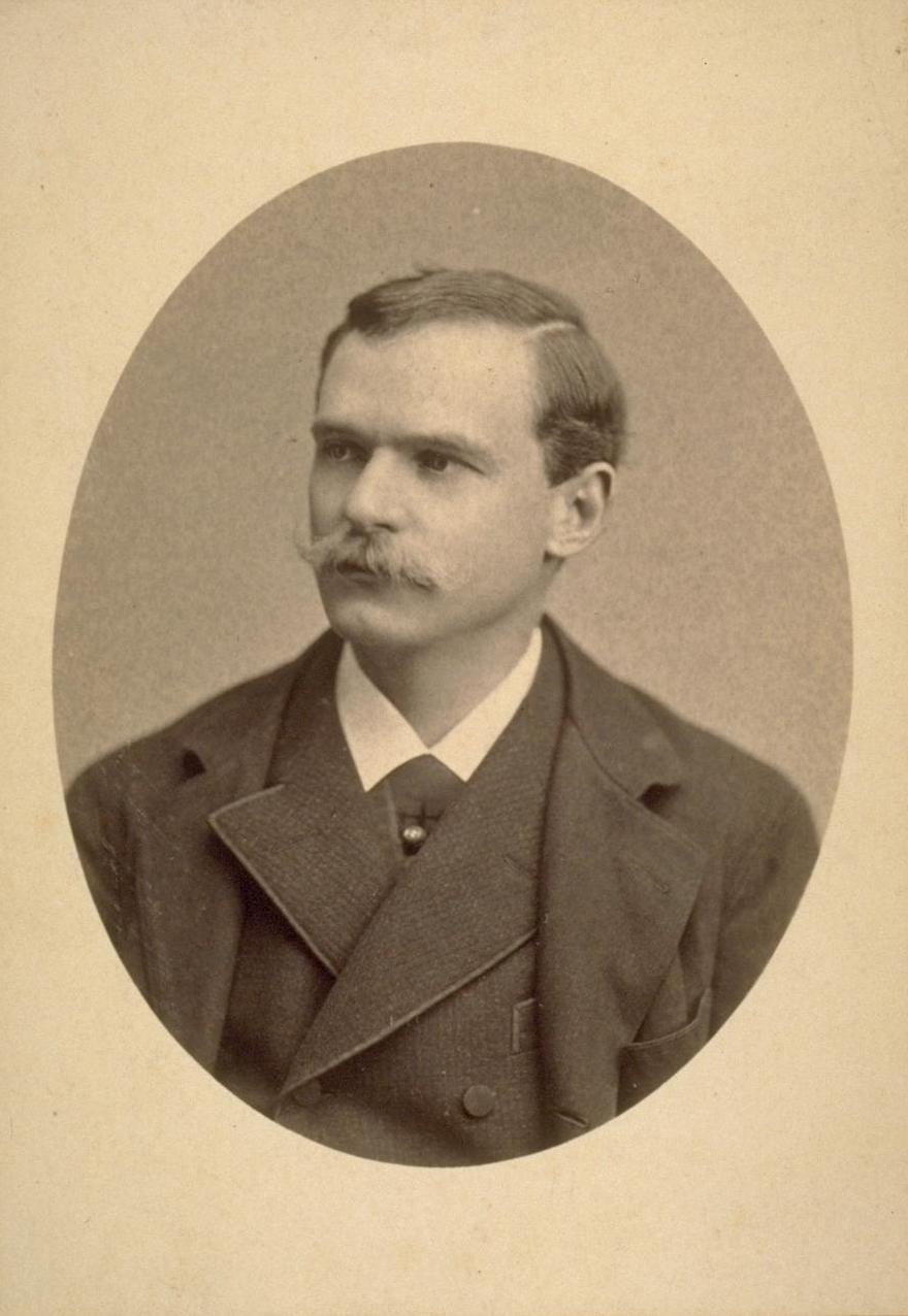 Toby Edward Rosenthal (1848–1917), American artist